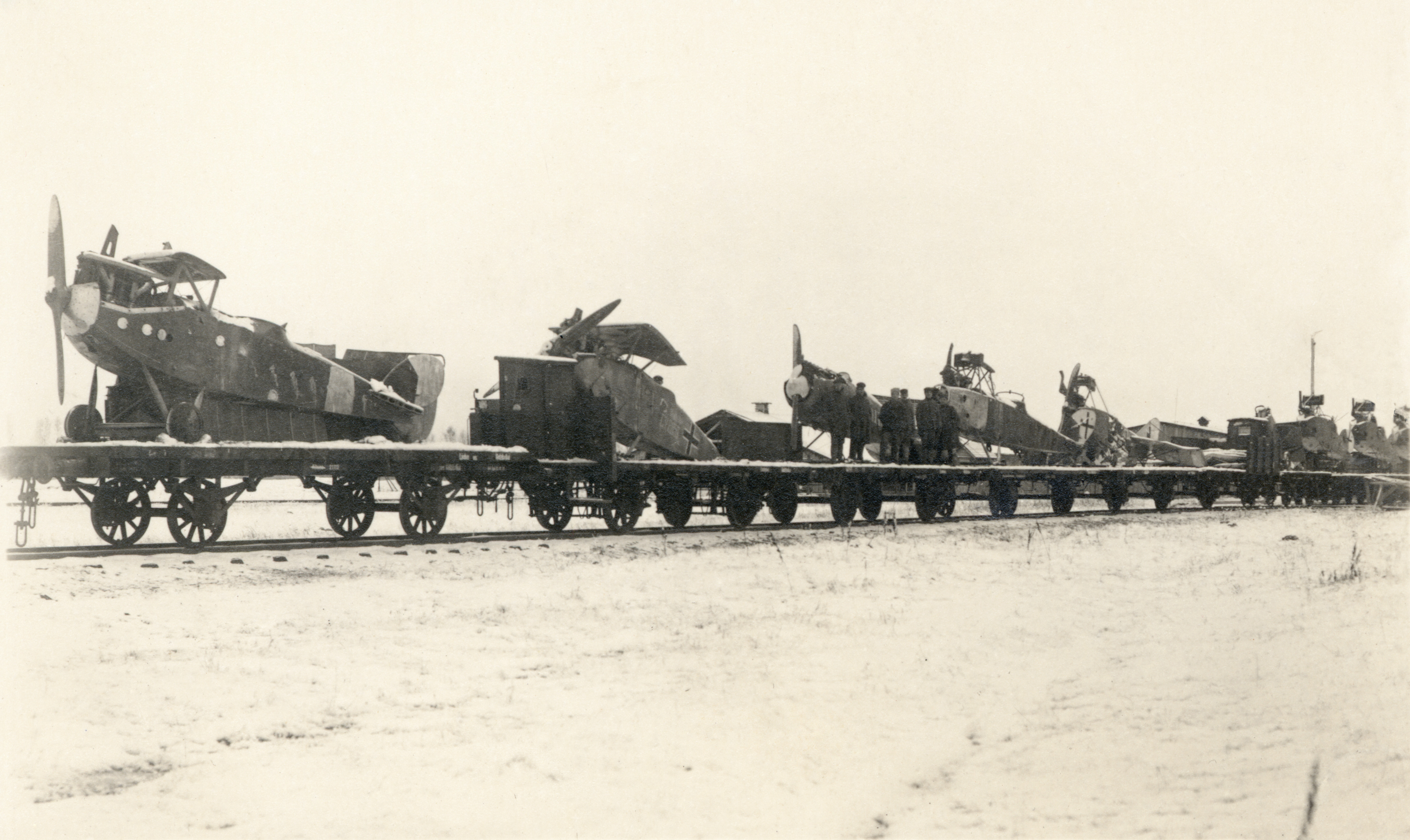 West Russian Volunteer Army (Bermontians) planes, captured by the Lithuanian Armed Forces during the Battle of Radviliškis in November 1919. They were being transported to Kaunas and were later used by the Lithuanian Air Force.